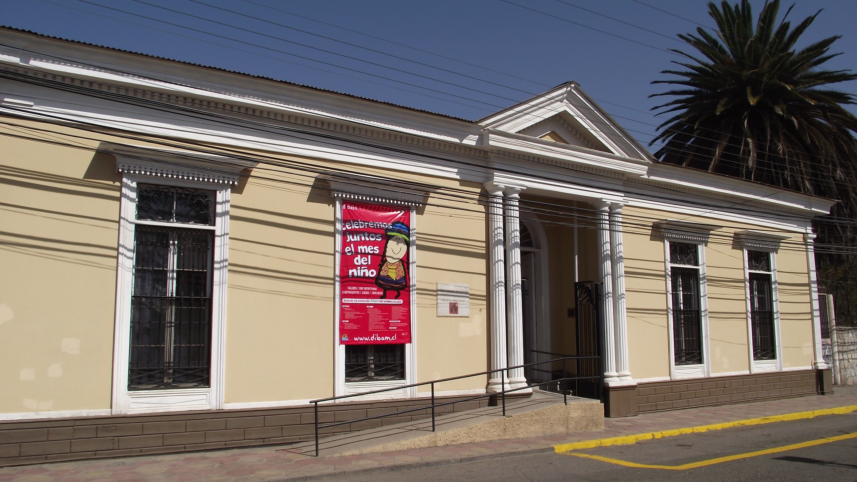 Atacama Regional Museum, Copiapó, Chile.